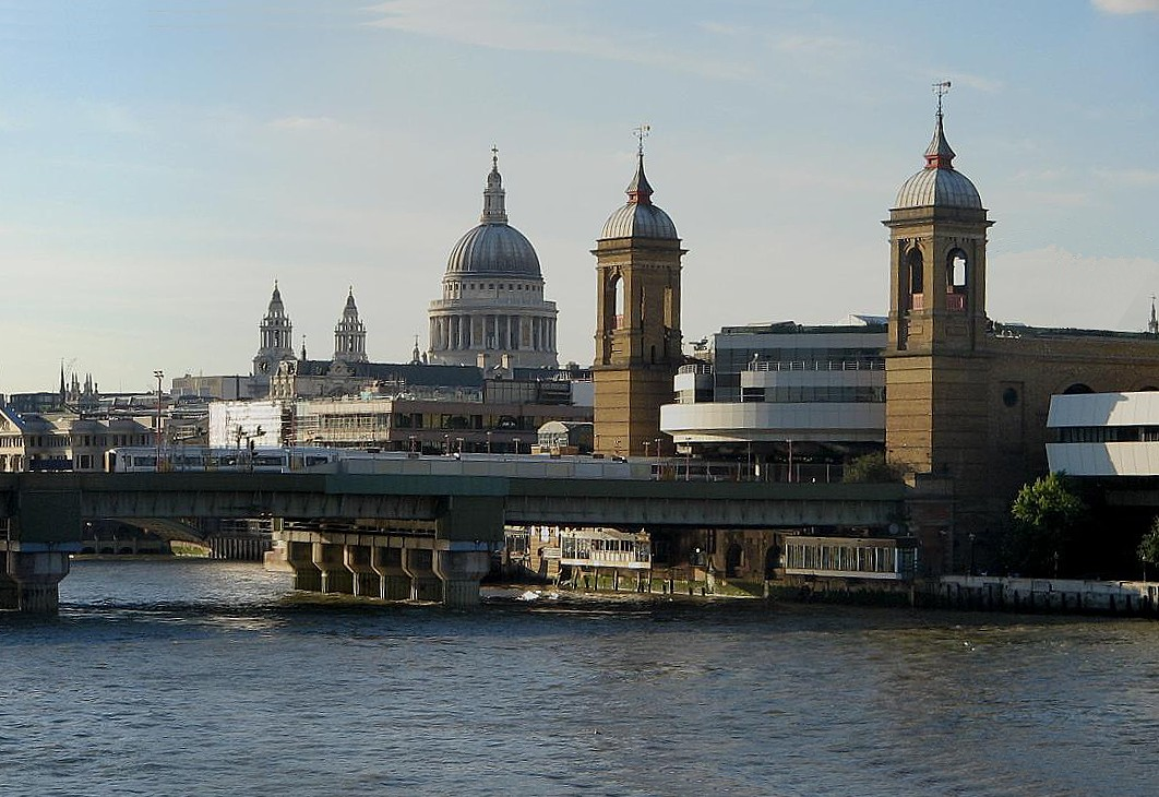 Cannon Street station, viewed from London Bridge. Photo taken by Will Fox in September 2005. For a view in 1982 see File:Cannon Street Station from London Bridge - .uk - 680808.jpg